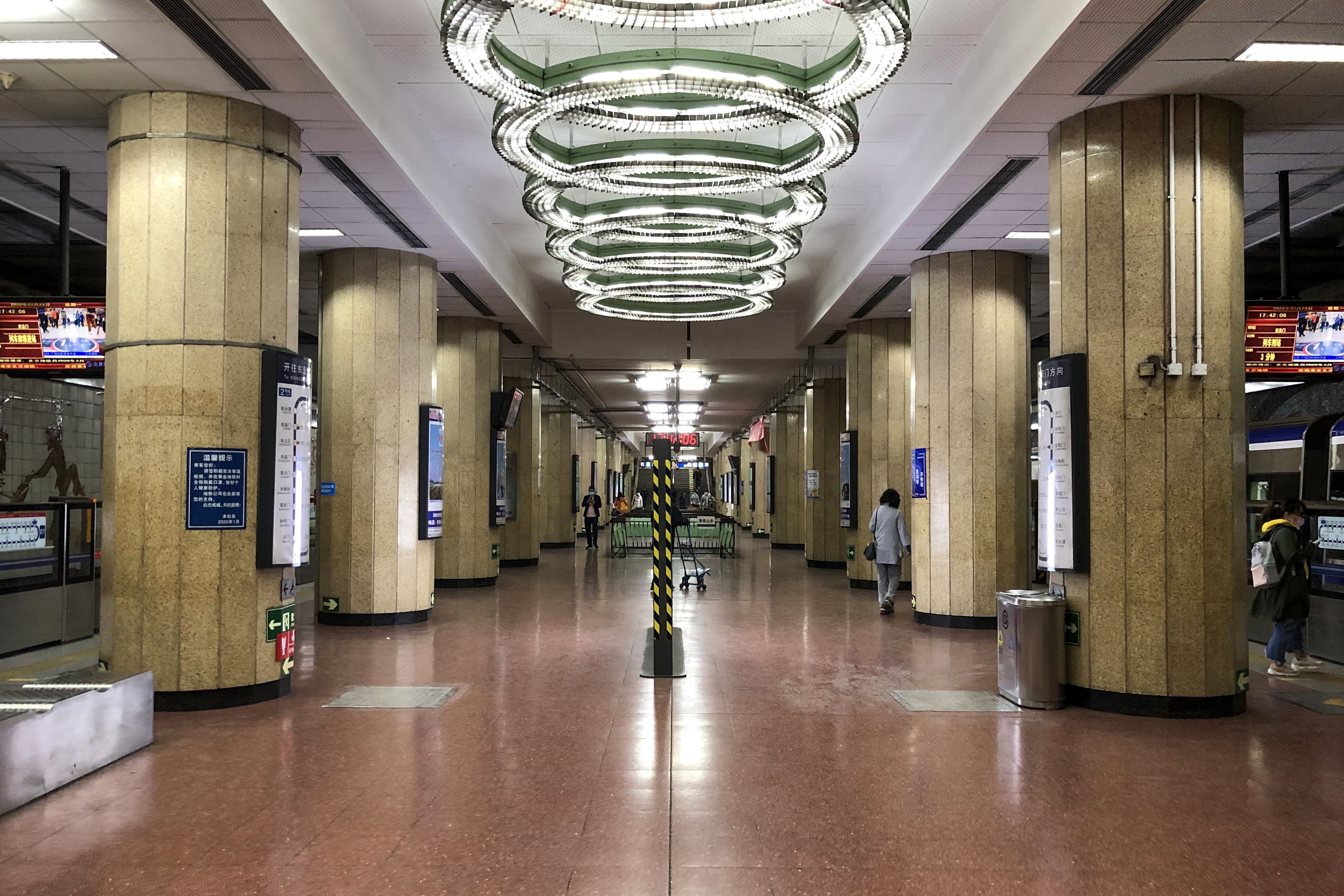 The ceiling is decorated with... something like Olympic rings.